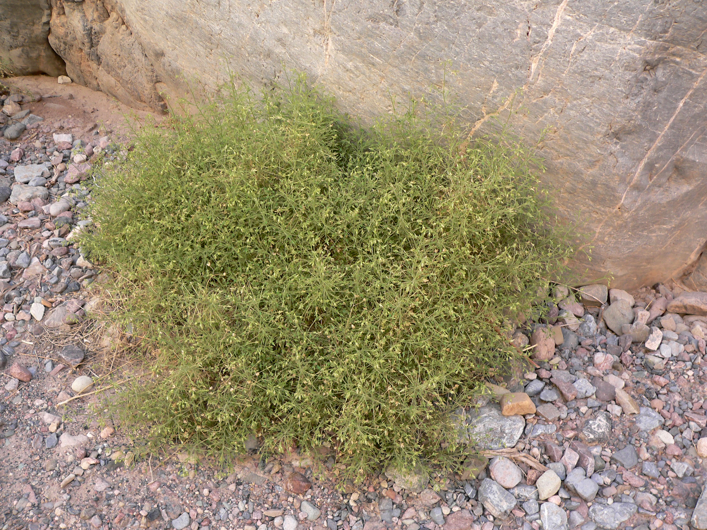 Pleurocoronis pluriseta in Titus Canyon, Death Valley, California